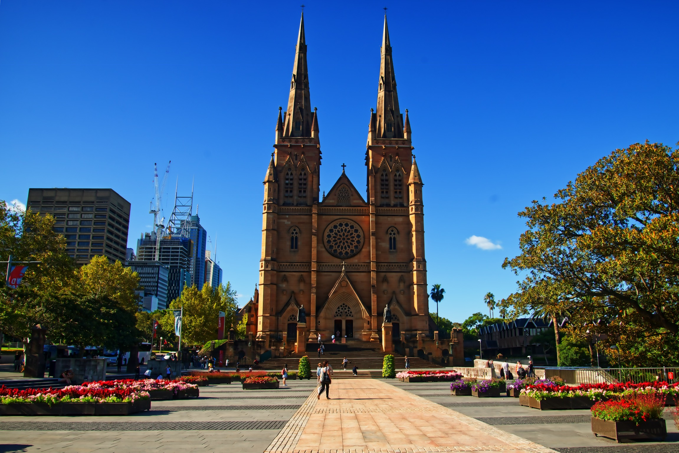 The south facing main front of St Mary's Cathedral